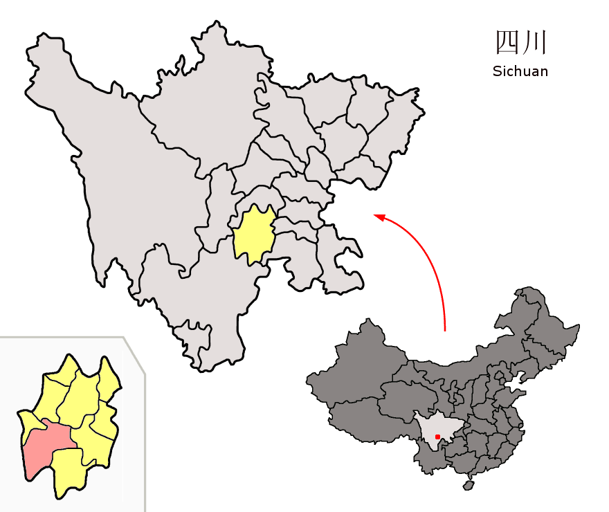 Location of Ebian County (pink) and Leshan Prefecture (yellow) within Sichuan province of China Map drawn in september 2007 using various sources, mainly : Sichuan province administrative regions GIS data: 1:1M, County level, 1990 Sichuan Counties map from Map of Yunnan & Sichuan Area from